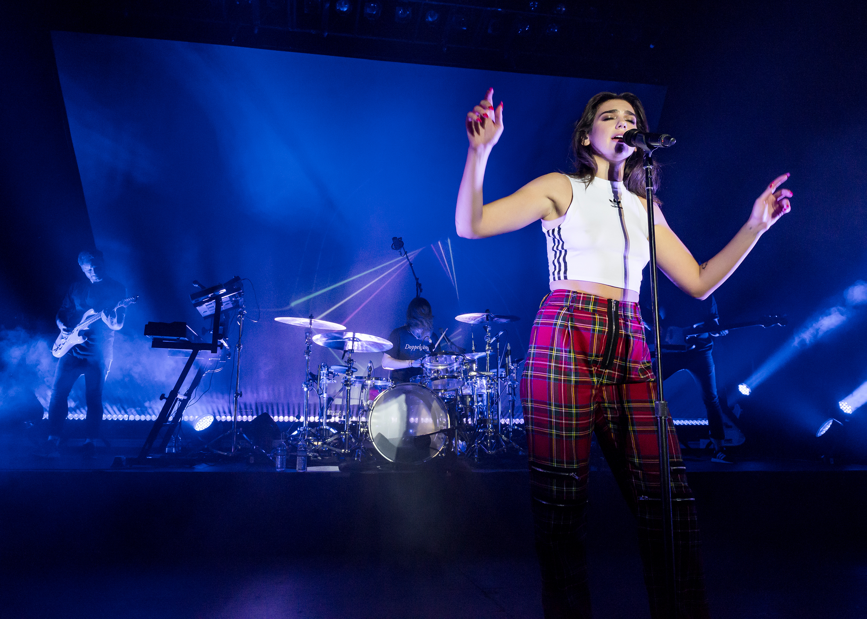 Dua Lipa performing live at The Palladium in Hollywood, Los Angeles, California, on Thursday, February 8, 2018. The first of two sold out nights at this venue on Dua's "Self-Titled" Tour. Shot for Live Nation's Ones To Watch.